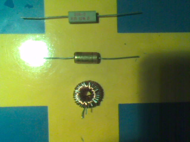 Passive components